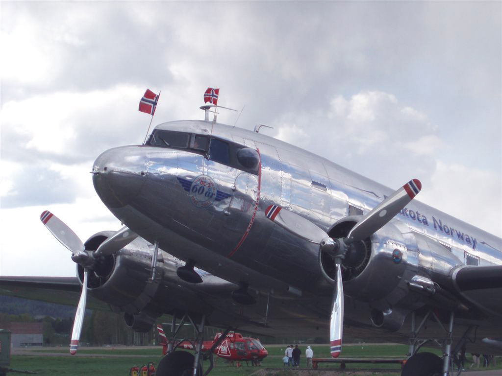 The DC-3 belonging to Dakota Norway. Picture taken at an airshow on Kjeller military airbase in Norway.